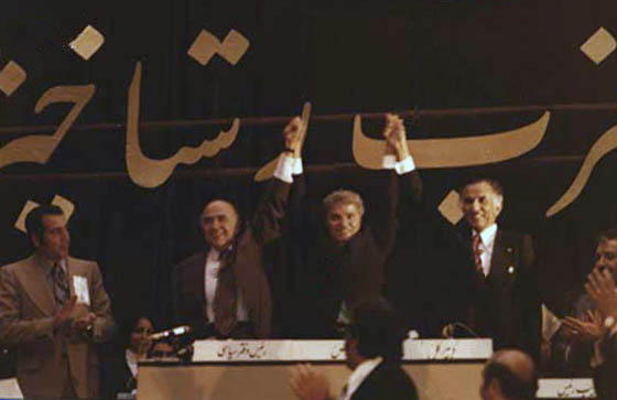 Second Anniversary of Resurgence Party of Iran. - 1. Jamshid Amouzegar 2. Qasem Motamedi 3. Amir Abbas Hoveida